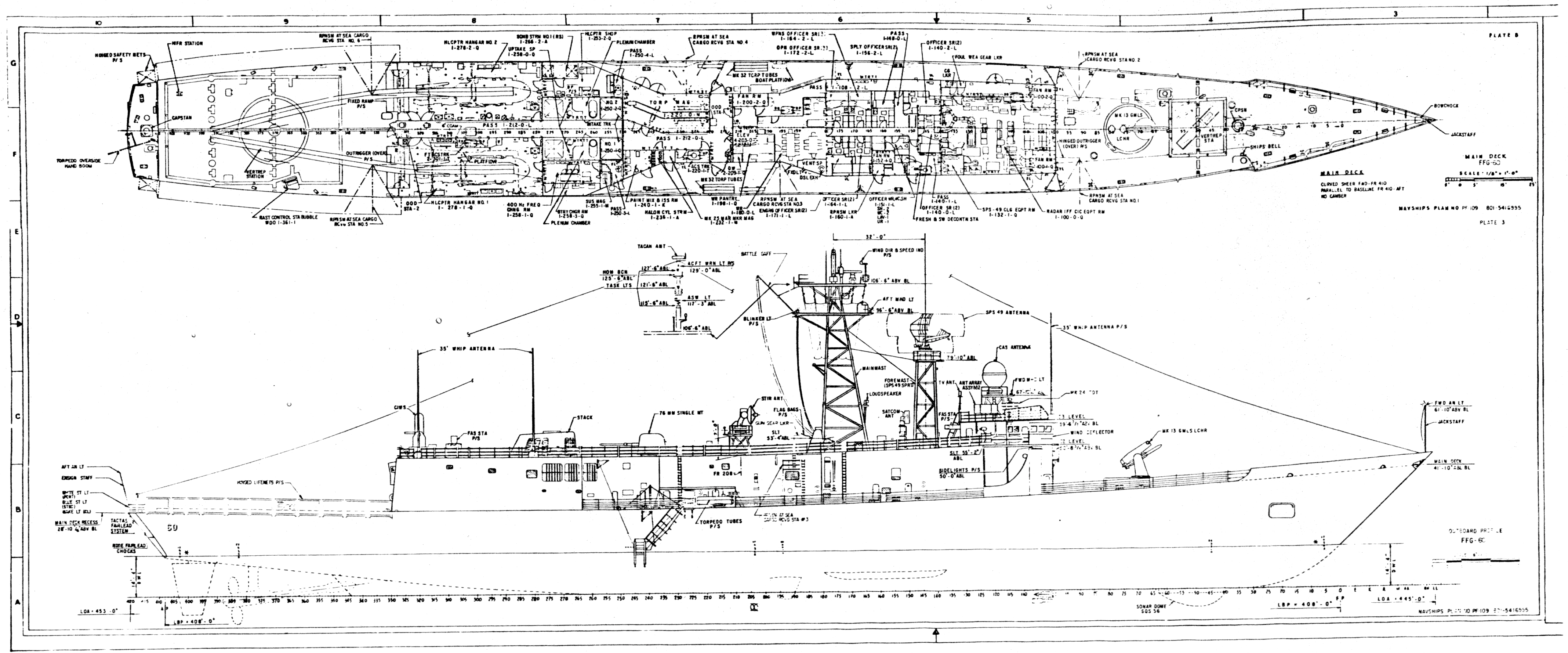 Outboard profile of the U.S. Navy frigate USS Rodney M. Davis (FFG-60) from official program produced for the commissioning of Rodney M. Davis on 9 May 1987 in Long Beach, California (USA).